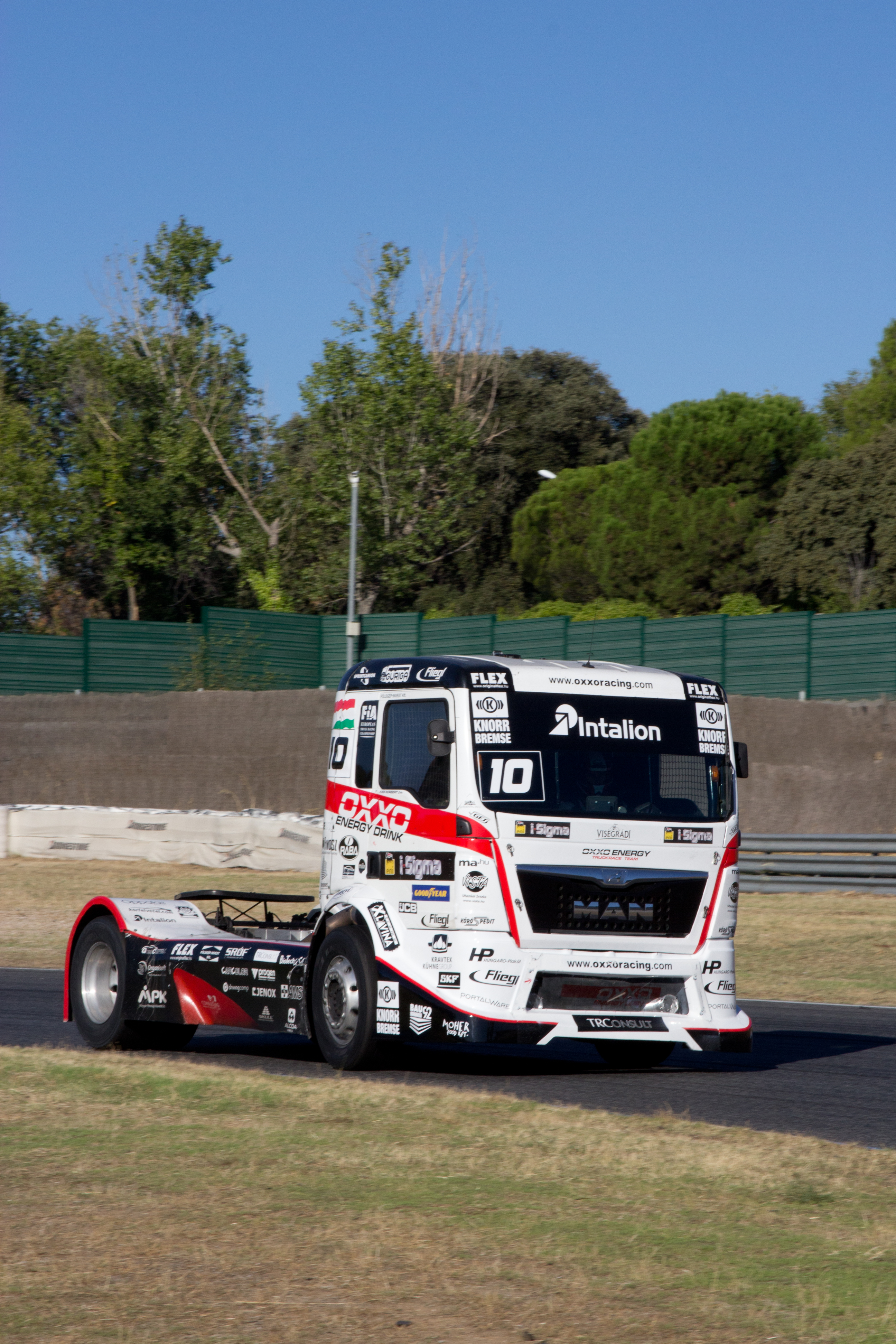 Truck pilot Norbert Kiss at the Spain Truck GP 2013.